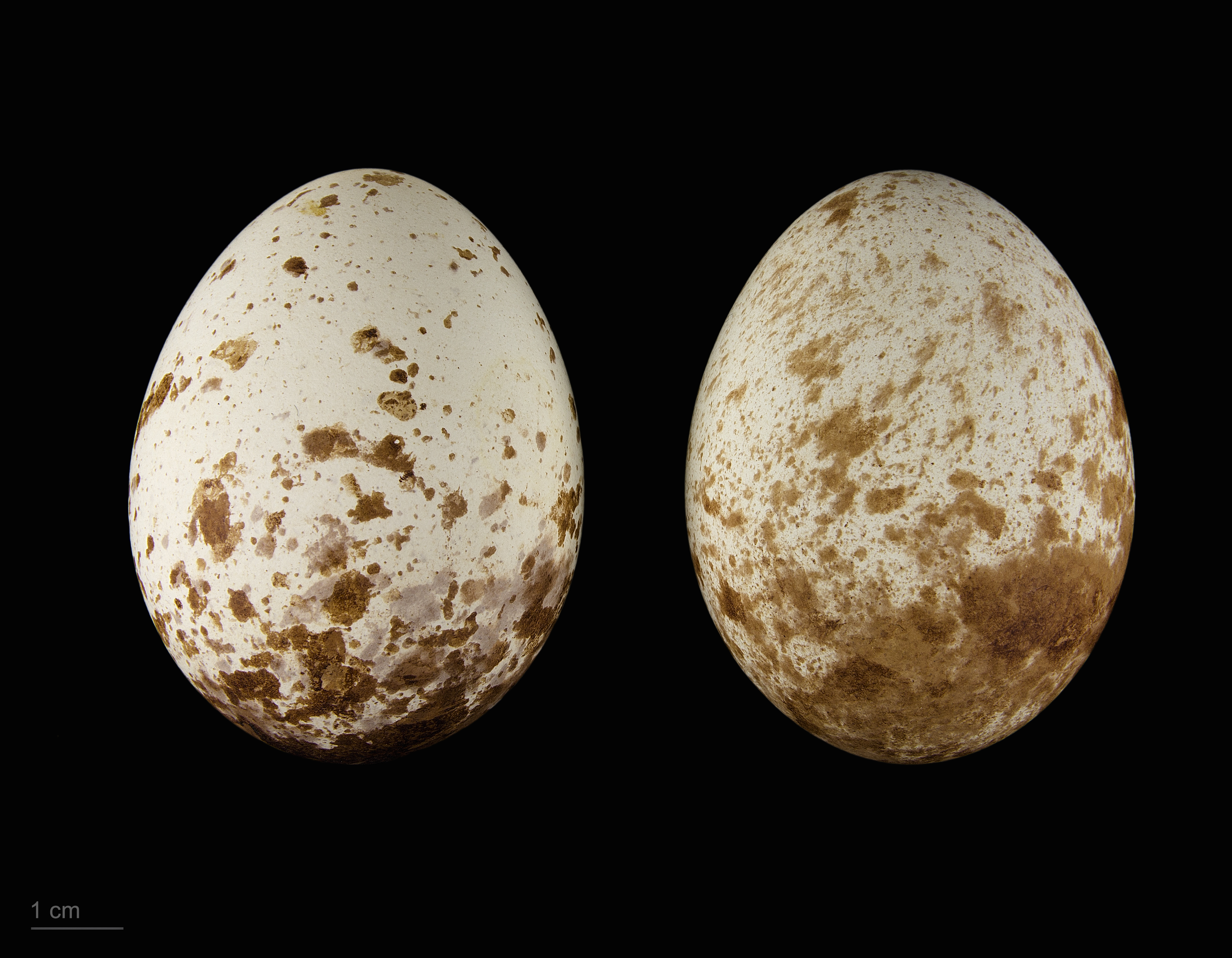 Eggs of Buteo rufinus cirtensis Two specimens of the same spawn ; collection of Jacques Perrin de Brichambaut.